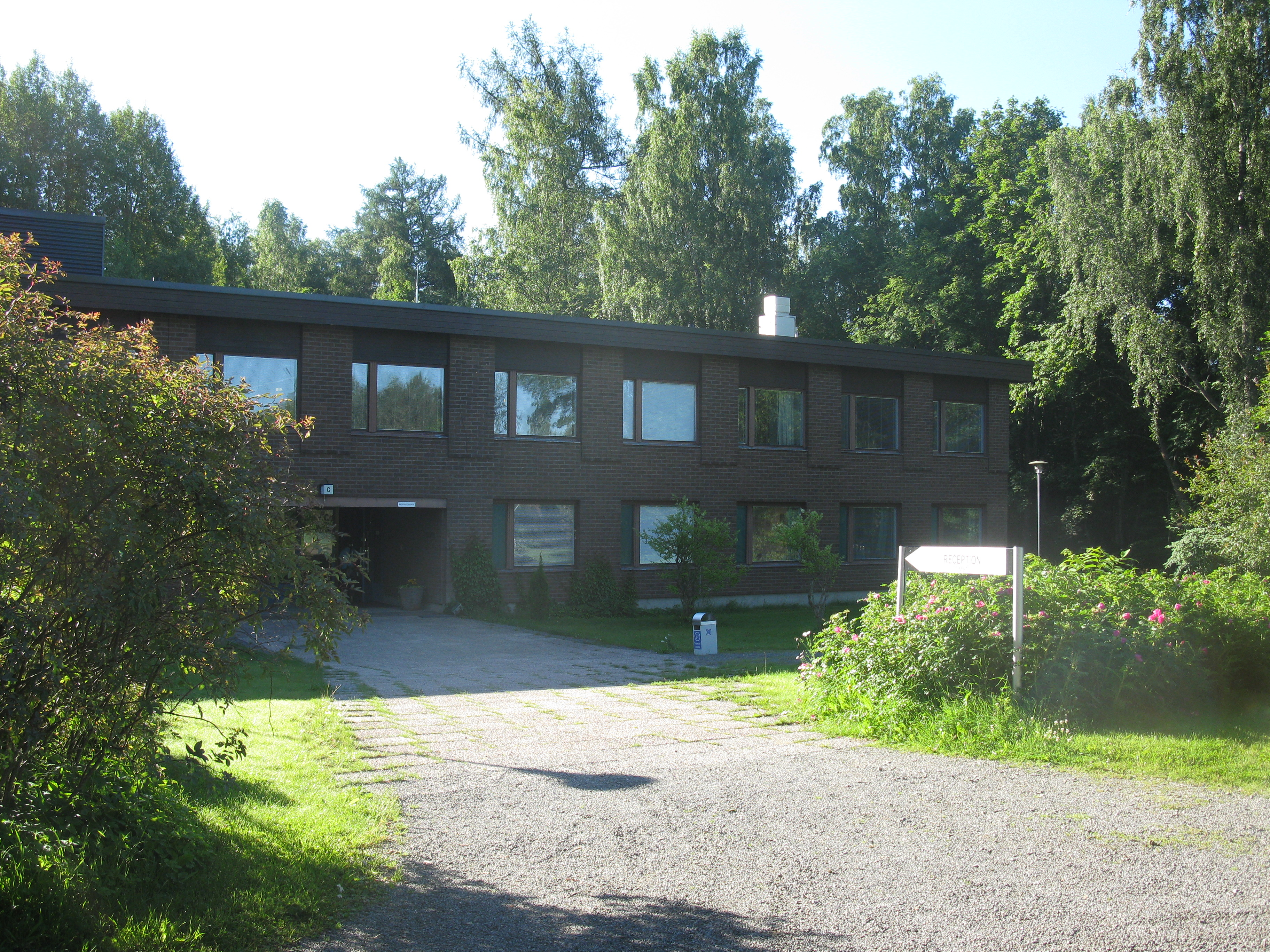 Lammi biological station, main building. (august 2015)